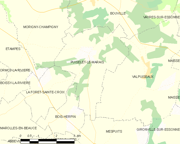 Map of French municipality Puiselet-le-Marais